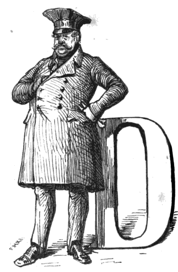 Danish actor Kristian Mantzius (1819-1879).